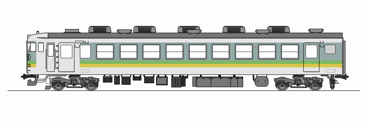 The side view of the EMU series 165 of JNR "Moonlight" Color 5th or subsequent ones formation.